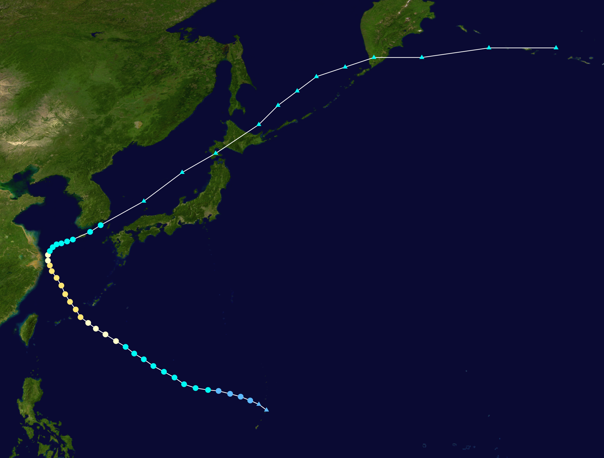 Typhoon Agnes 1981 track. Uses the color scheme from the Saffir-Simpson Hurricane Scale.